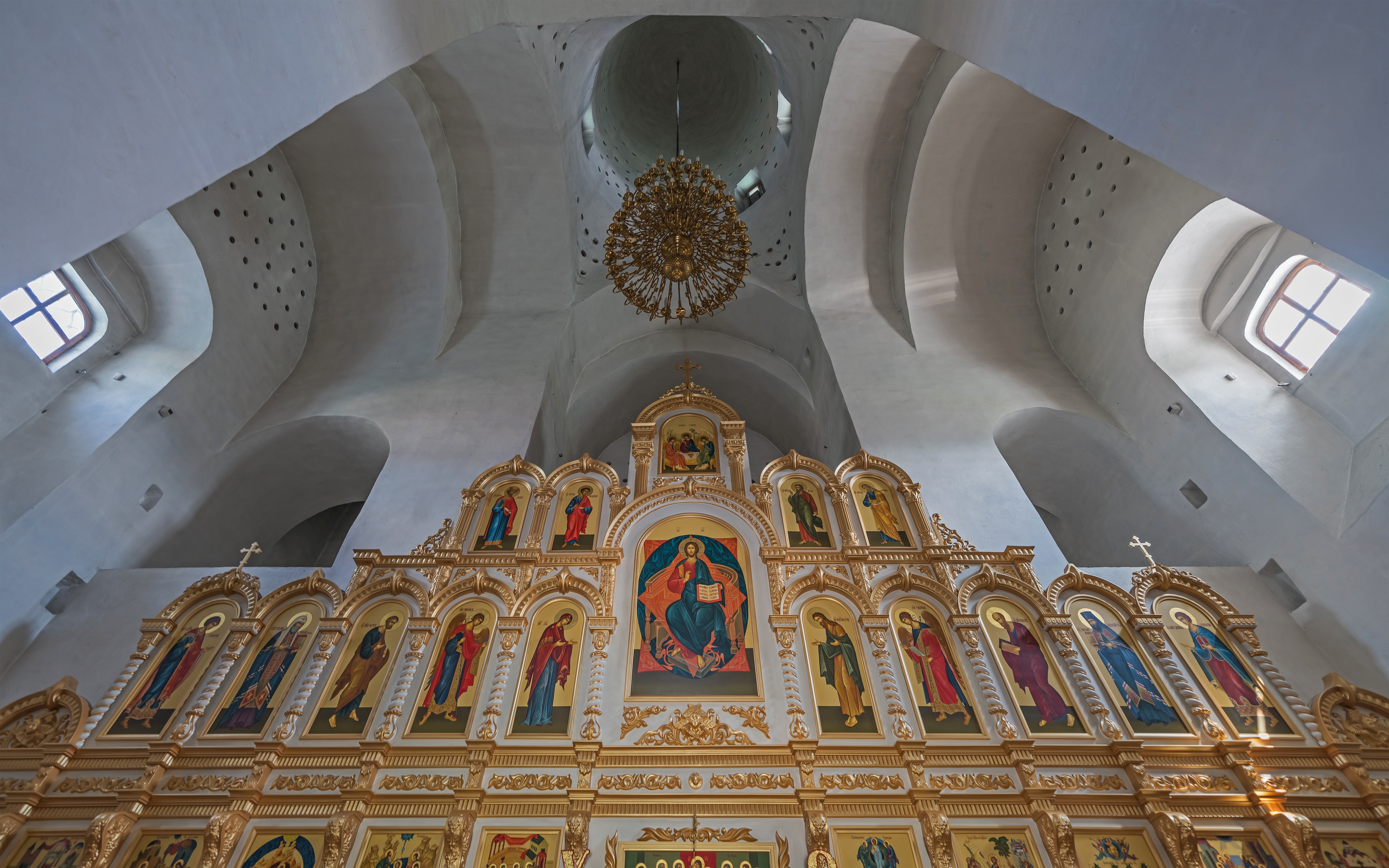 Interior of Epiphany Church «at Zapskovie» in Pskov, Russia